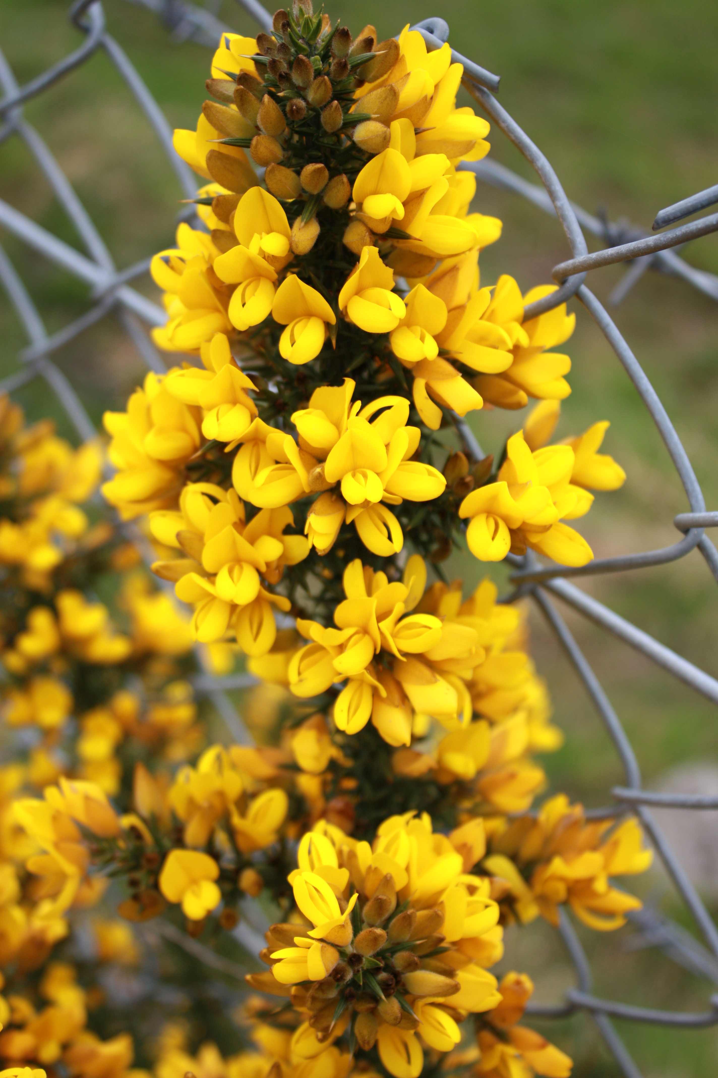 Gorse in flower, Leckpatrick Road, Ballymagorry, County Tyrone, Northern Ireland, May 2010